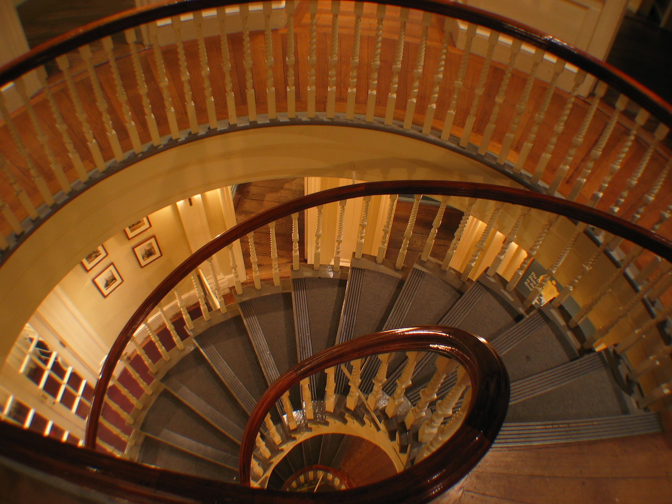 Spiraling staircase in the center of the Old State House in Boston, MA, USA